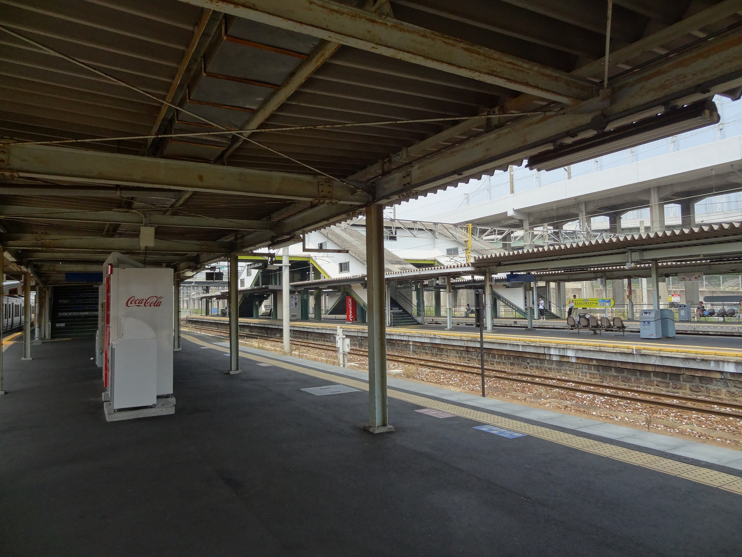 A platform of Nishikokura station(JR kyushu)